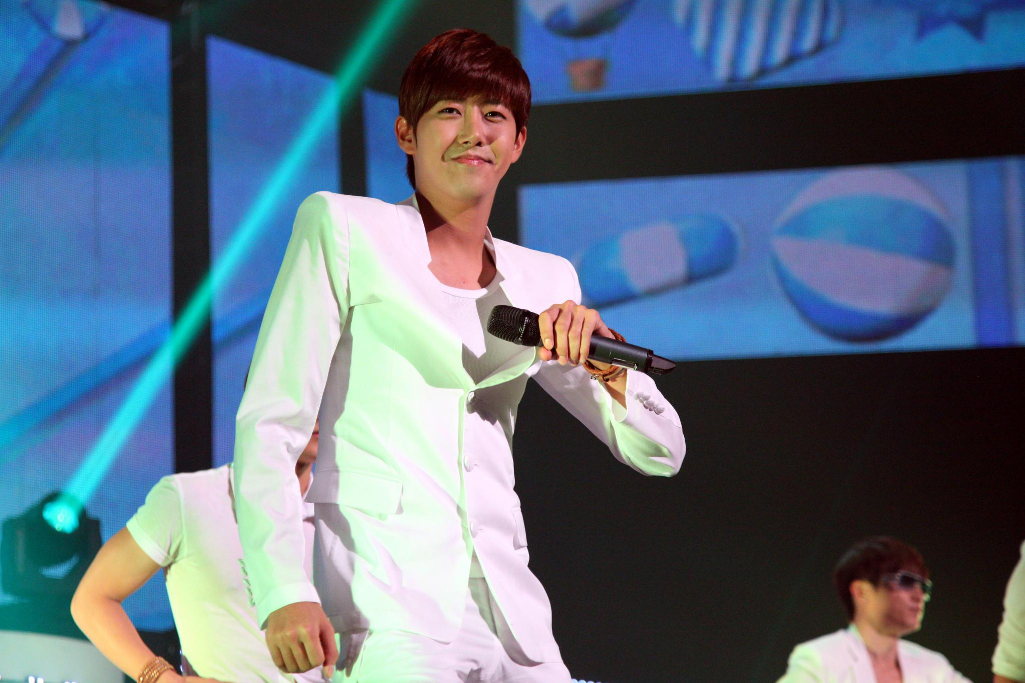 ZE:A Hwang Kwanghee, Cyworld Dream Music Festival 2011